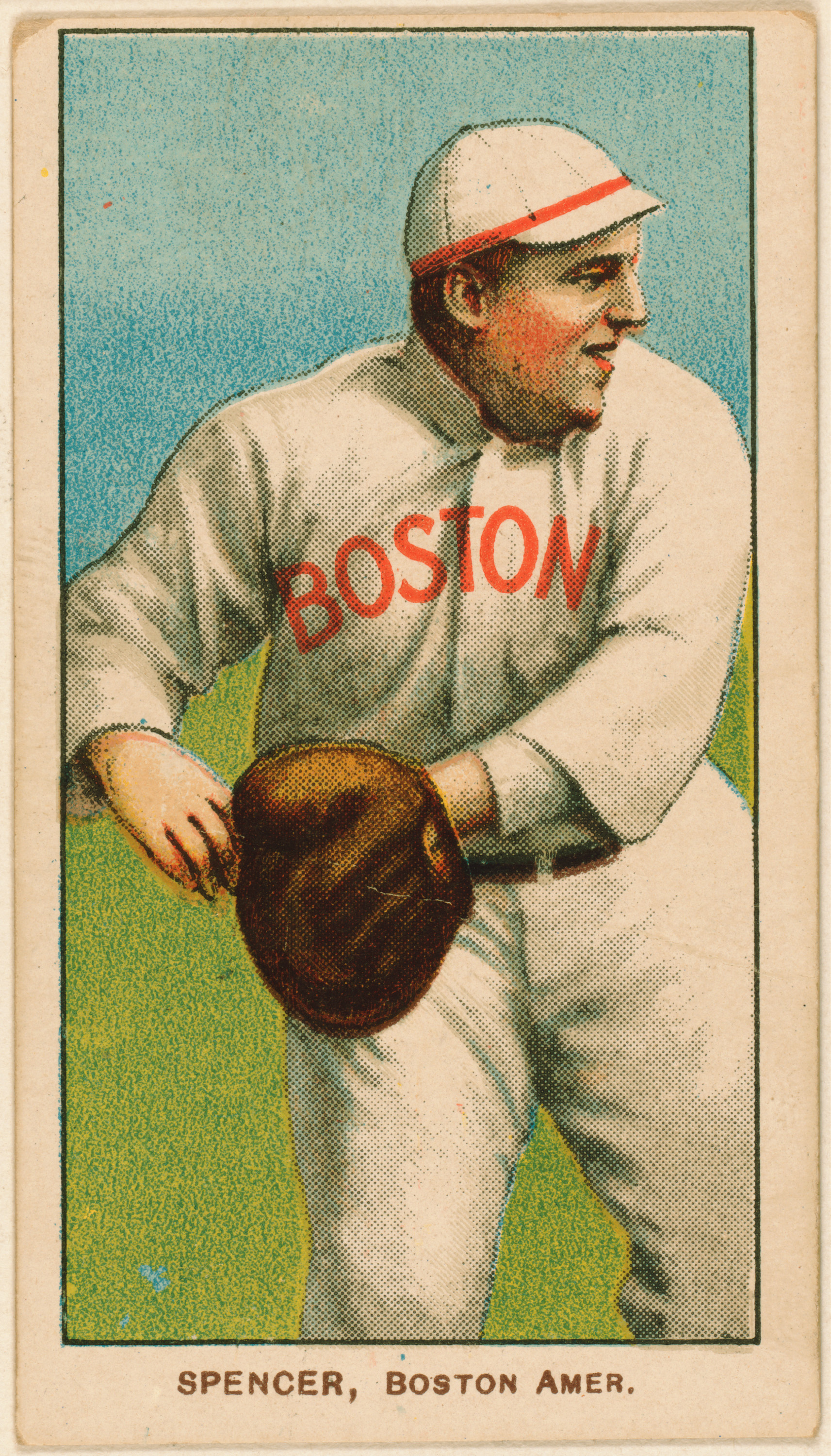 T206 White Borders 1909-11 reverse From the Baseball Cards Collection at the Library of Congress More 206 White Borders | More vintage baseball cards [PD] This picture is in the public domain